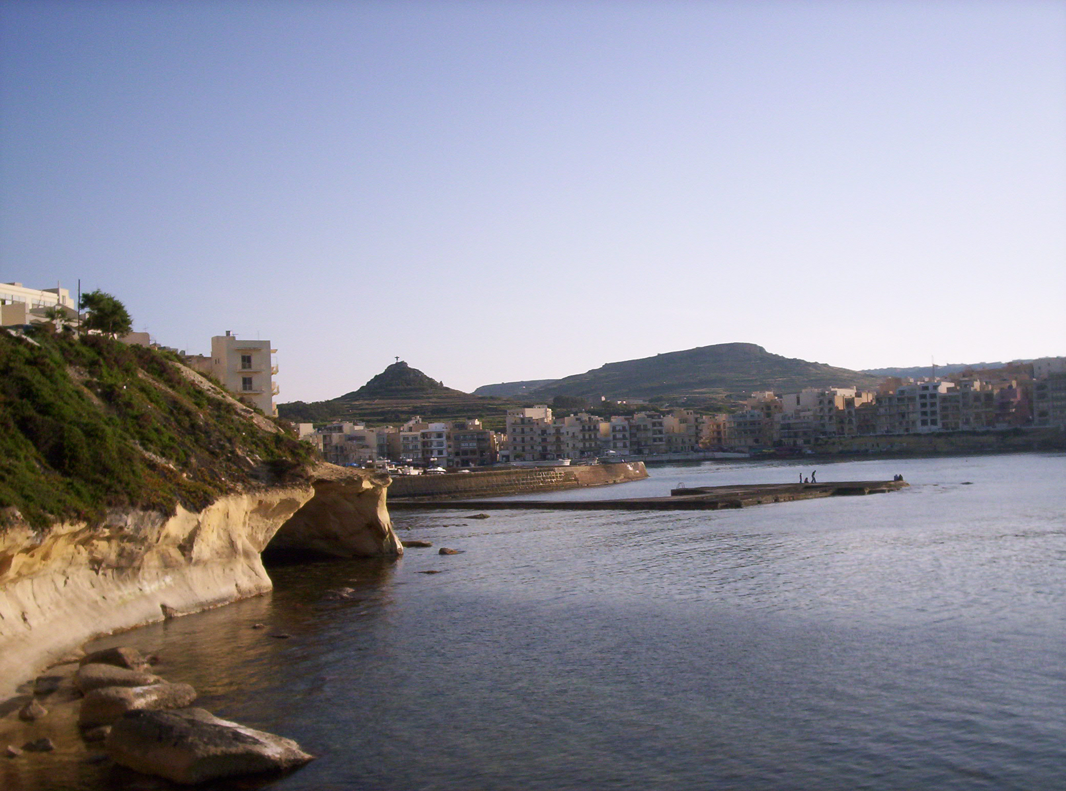 Marsalforn Coastal Line Licensing